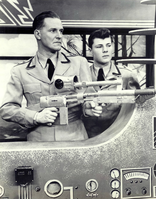 Photo of Al Hodge (Captain Video) and Don Hastings (Video Ranger) as the captain holds his invention, the Atomic Rifle, from the television program Captain Video.